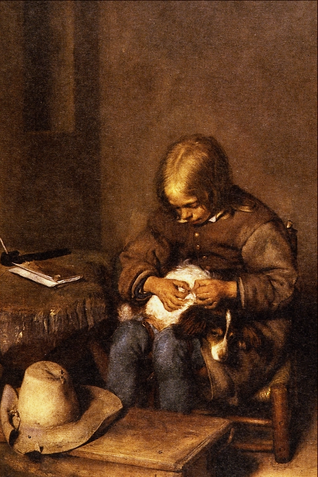 Boy Fleaing his Dog